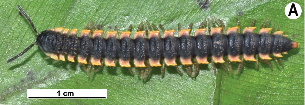 Orthomorpha tuberculifera sp. n., ♂ holotype, habitus, live coloration.